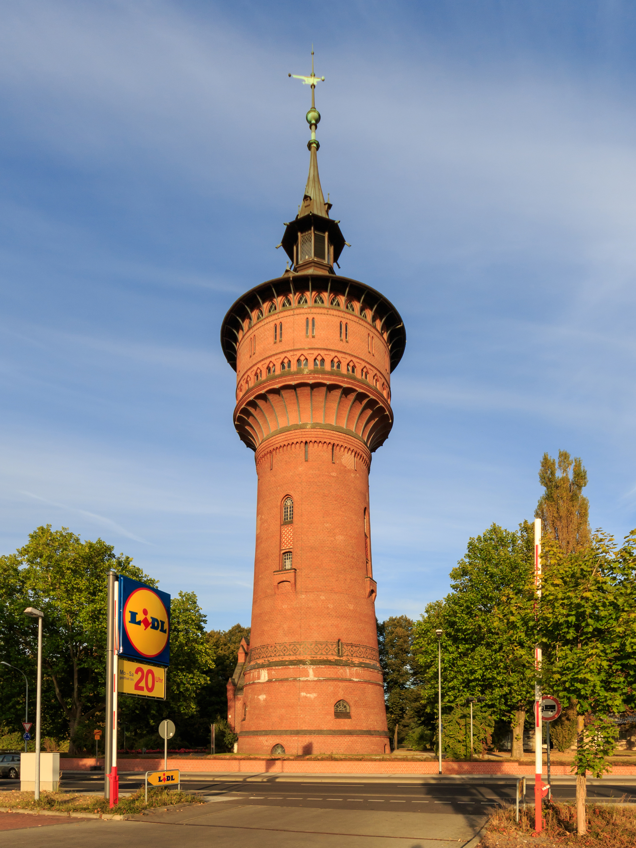 Water Tower in Forst (Lausitz), Brandenburg, Germany